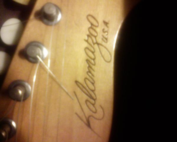 Picture of the logo on a Gibson Kalamazoo guitar.